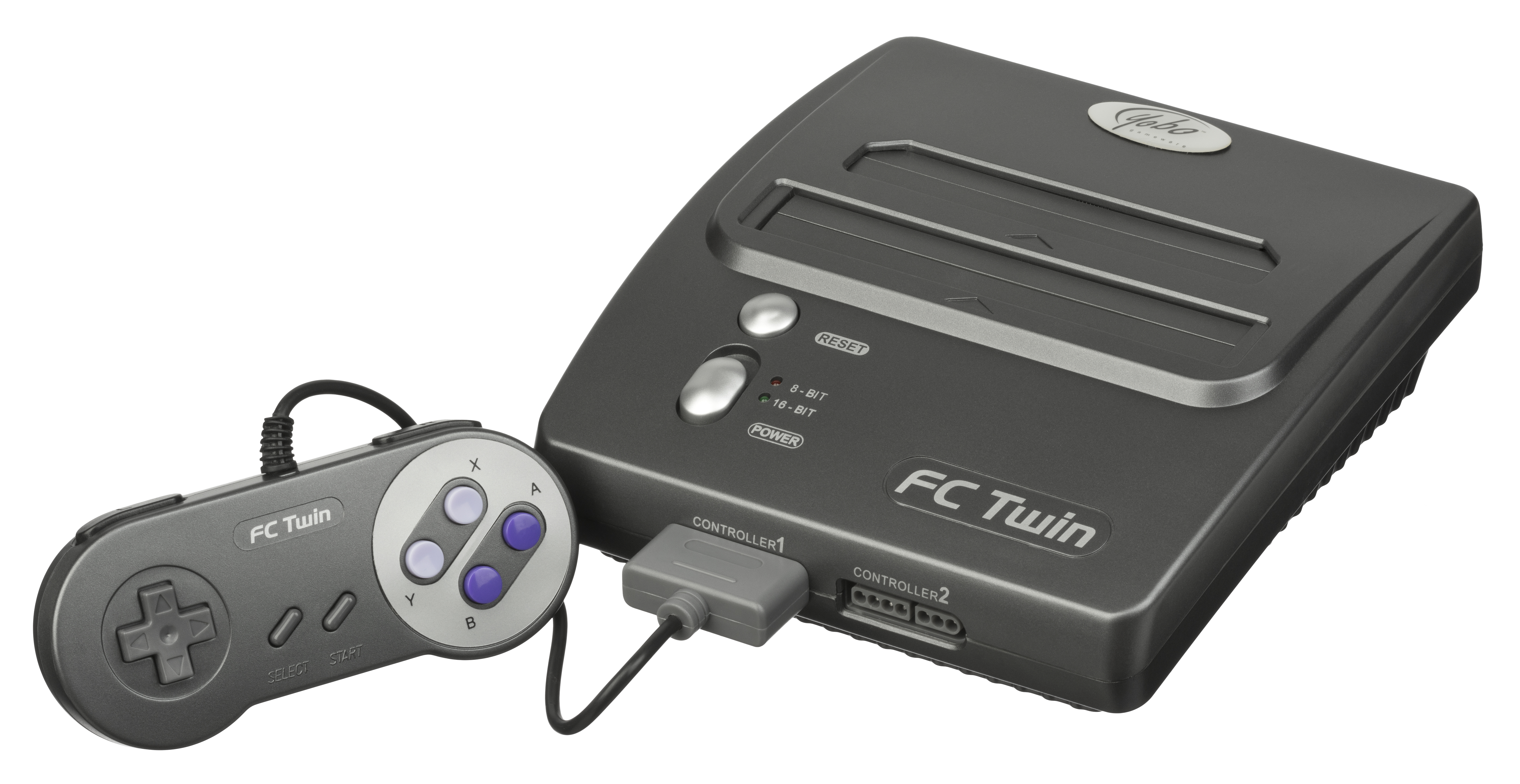 An FC Twin, a clone system made by Yobo. Commonly sold in independent gaming stores, the FC Twin is a hardware emulator that allows you to play original Super Nintendo and NES game cartridges. The FC Twin sells for less than original, second-hand hardware, making it easy for people to get into retro gaming or replace broken consoles. There are a variety of clone systems made by Yobo, usually emulating NES, Super NES and Genesis consoles. This particular console is modeled to look like the revised Super Nintendo and comes with controllers that handle exactly like the Super Nintendo's.